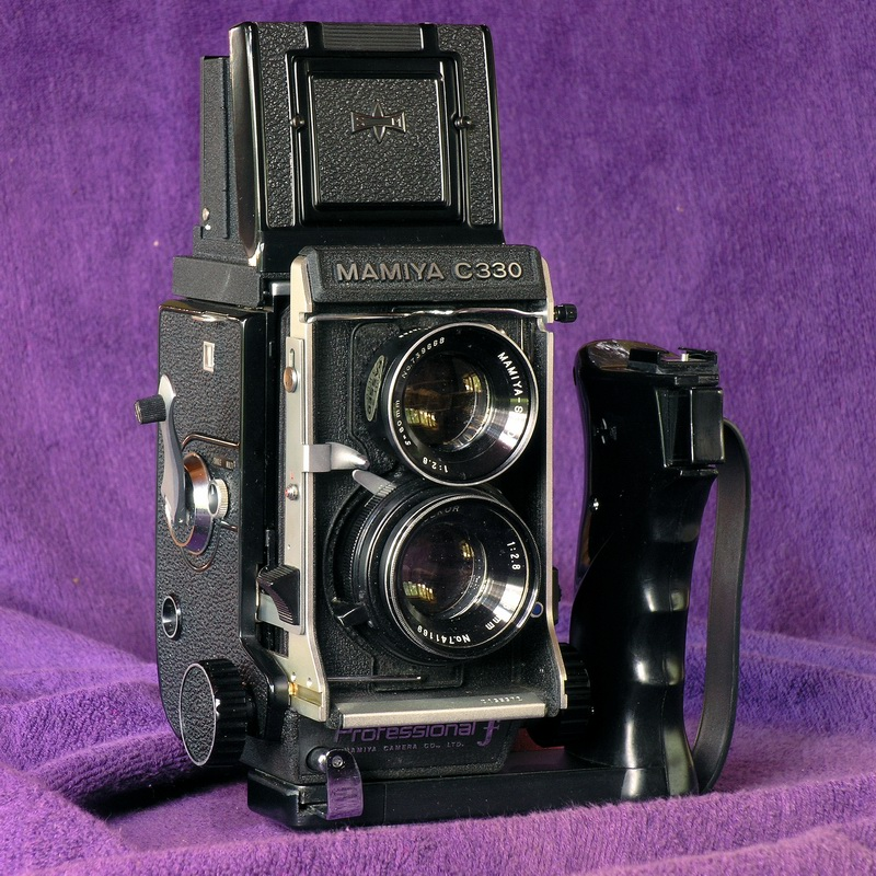 DANYvanvee